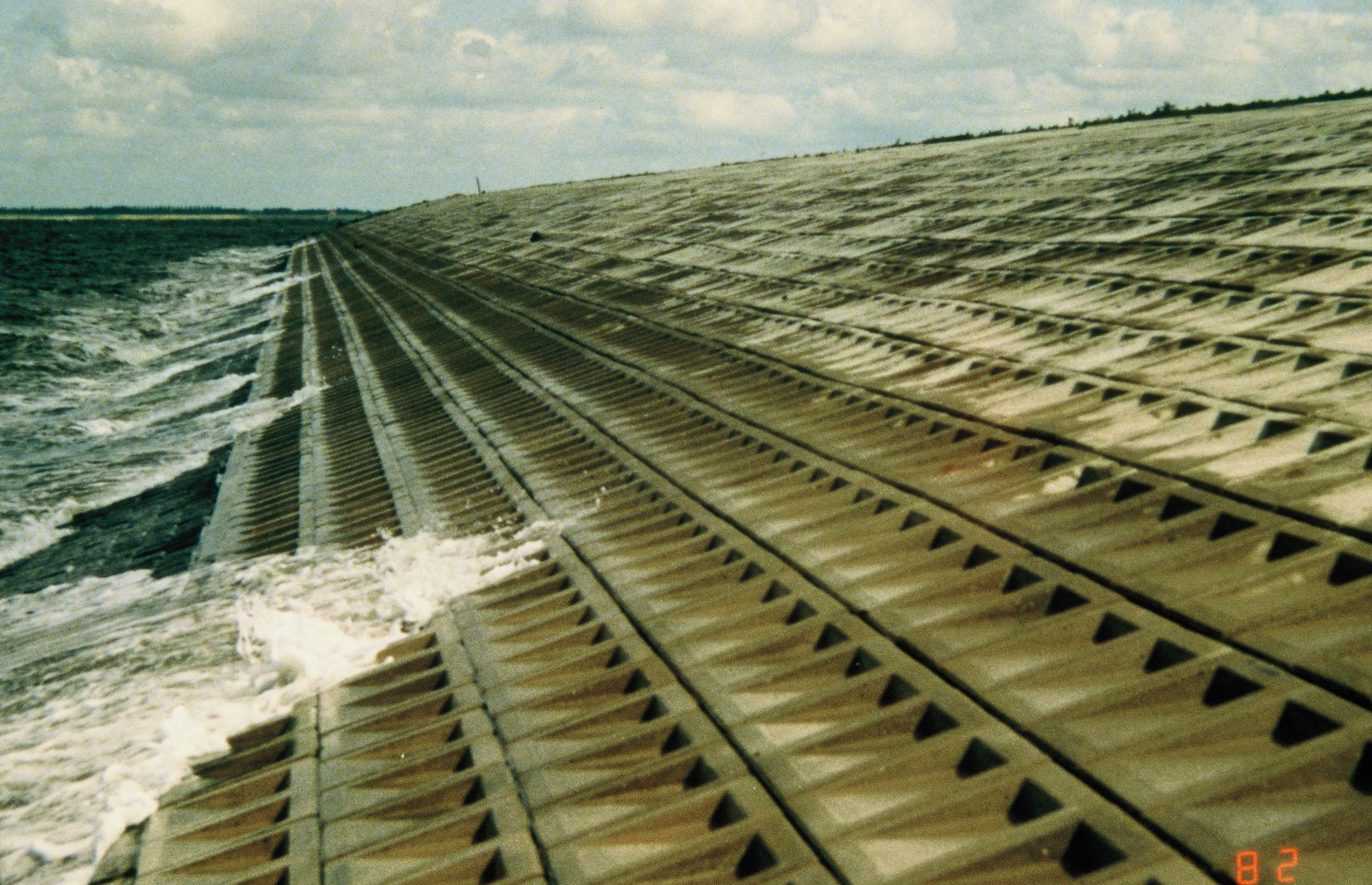 Run up is indicated on rather smooth concrete block